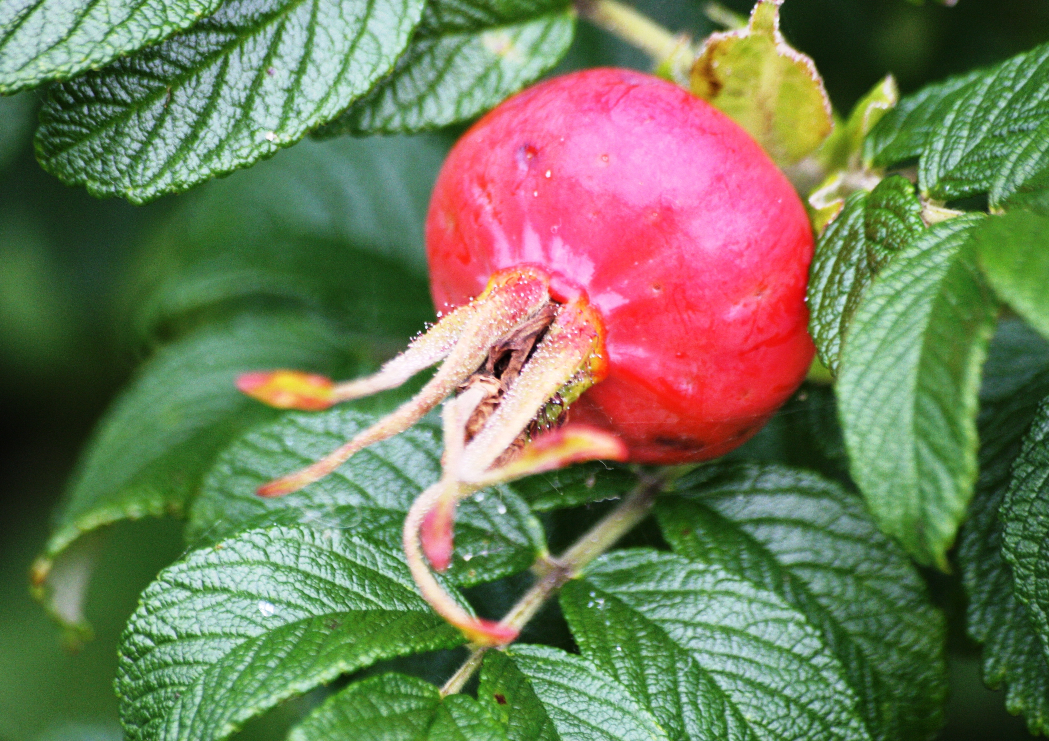 rosa rugosa is a rose breed that spreads heavily along the Oslo fjord, Norway. Here a specimen from ersvika, Hurum municipality.